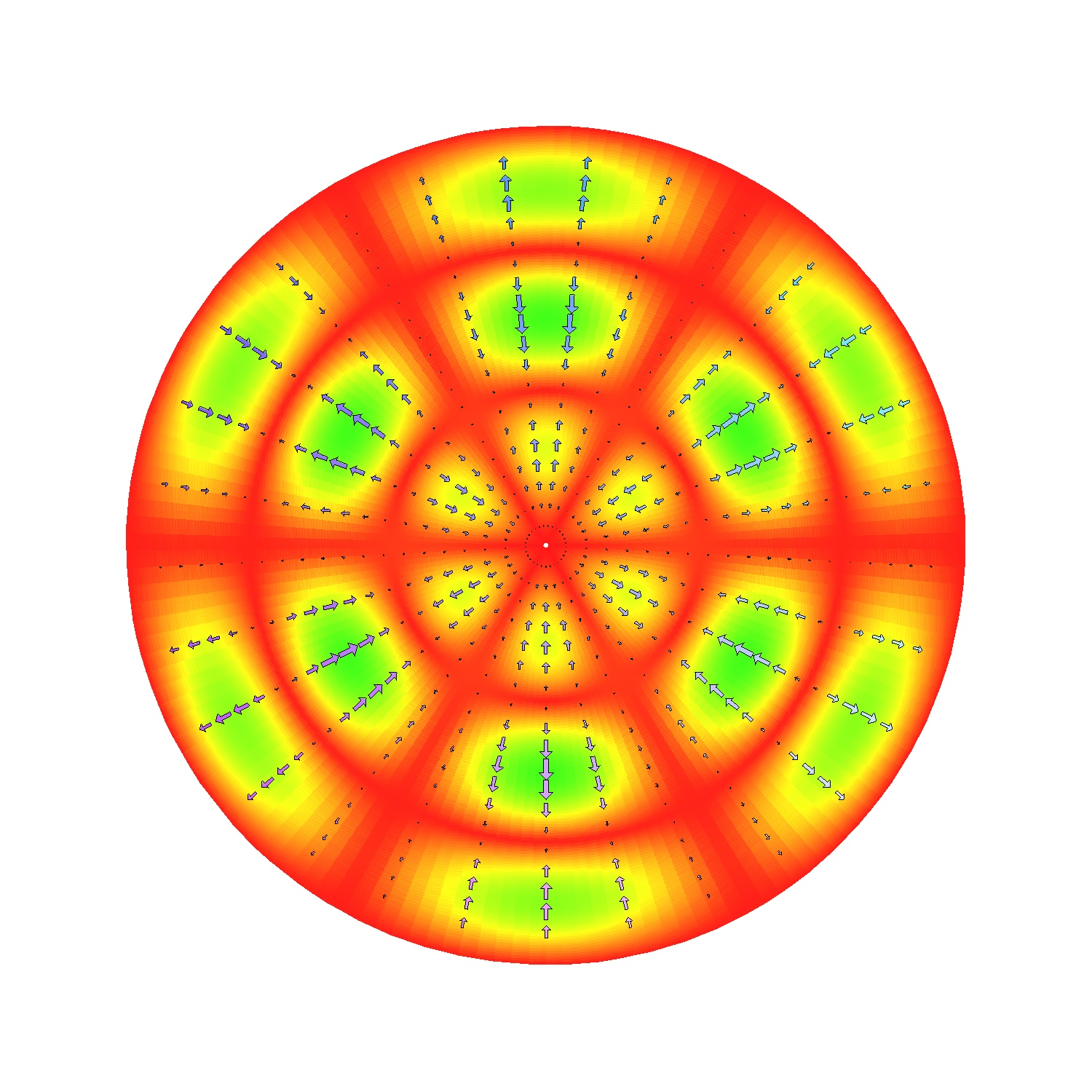 Plot of E and H fields on the TEnl mode defined by n and l.